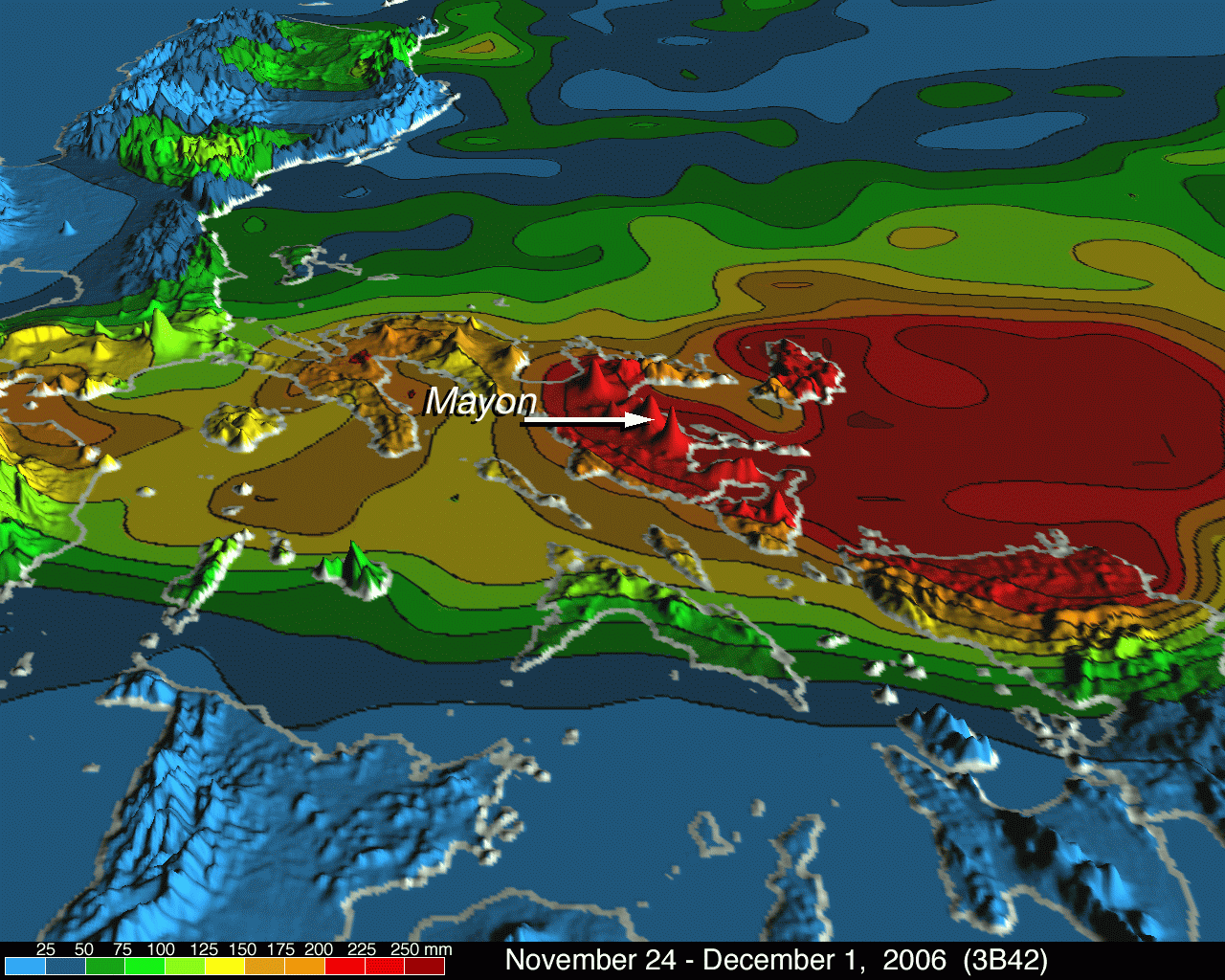 TYPHOON DURIAN TRIGGERS MASSIVE MUDSLIDES IN THE PHILIPPINES In what has turned out to be a deadly combination, torrential rains brought on by the passage of Super Typhoon Durian together with leftover volcanic ash has resulted in massive mudslides in the Central Philippines. So far at least 425 people are confirmed dead and nearly 600 more are still missing with little hope of survival. Super Typhoon Durian (known as "Reming" in the Philippines) made landfall in the Central Philippines on the 30th of November 2006 (local time) with reported wind gusts of up to 140 mph. The center crossed over Albay province in the southern part of the main northern Philippines island of Luzon. It was the accompanying heavy rainfall that turned out to be a disaster for the region. The Tropical Rainfall Measuring Mission satellite (known as TRMM) was placed into service in November of 1997. From its low-earth orbit, TRMM has been measuring rainfall over the global Tropics using a combination of passive microwave and active radar sensors. The TRMM-based, near-real time Multi- satellite Precipitation Analysis (MPA) at the NASA Goddard Space Flight Center monitors rainfall over the global Tropics. MPA rainfall totals due to Durian are shown here for the period 24 November to 1 December 2006 for the Central Philippines. Rainfall totals exceeding 200 mm (~8 inches) are shown in red and extend from the western Philippine Sea across southern sections of Luzon, Catanduanes Island (northwestern most island shown), and northern Samar. Locally up to 18 inches of rain were reported in Albay province. Mayon volcano (2462 m) is also located in Albay province and is the Philippines' most active volcano. An eruption earlier in the year left the steep slopes covered with a large amount of volcanic ash. It was this combination of ash and the torrential rains from Durian that led to the massive mudslides that buried entire villages in the region.